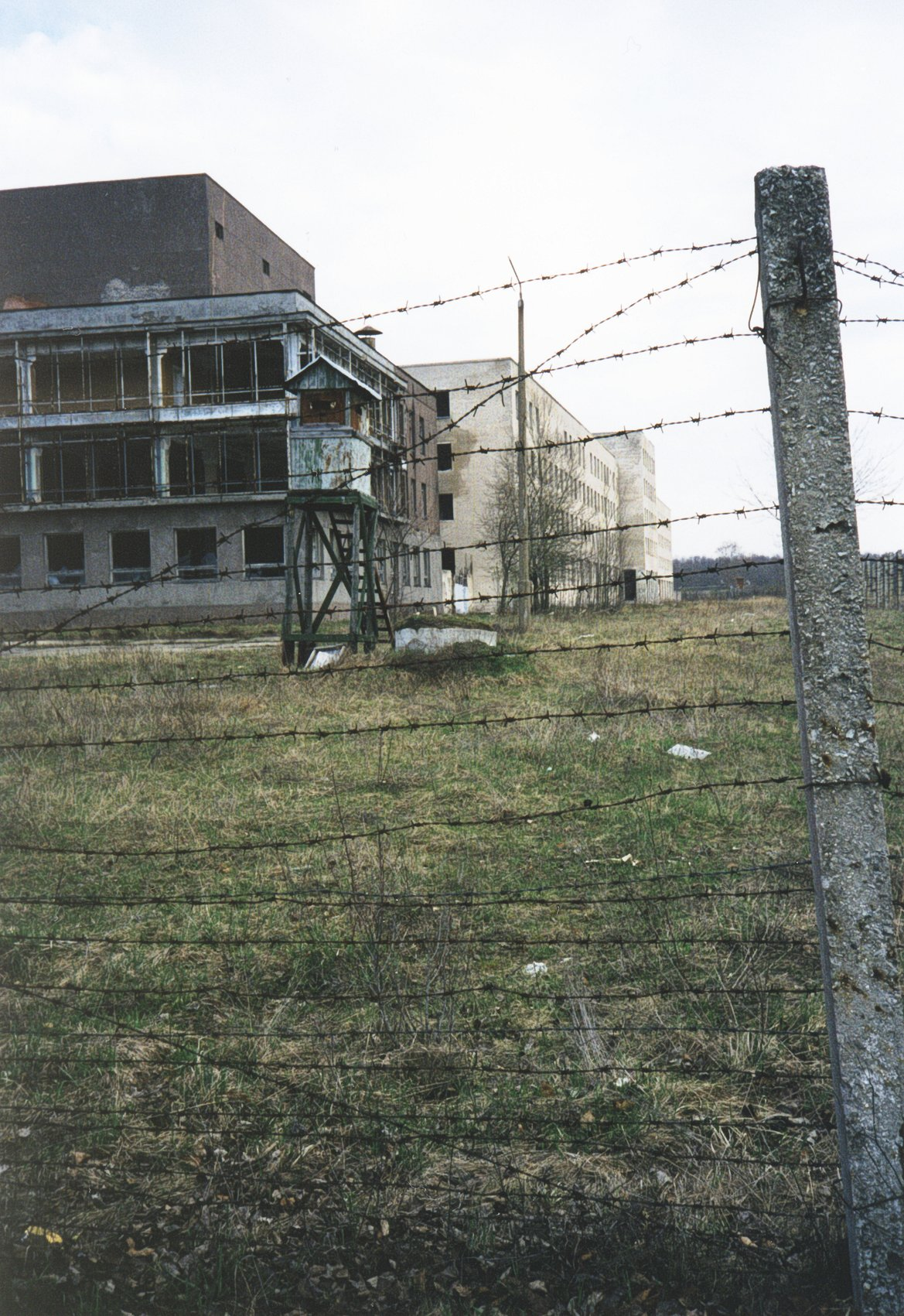 Paldiski, Estonia, abandoned former Soviet military area, 1999.